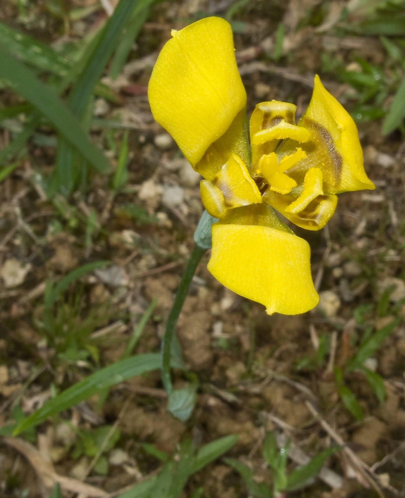 Trimezia martinicensis, growing near Allan's Water, Bukit Fraser, Malaysia